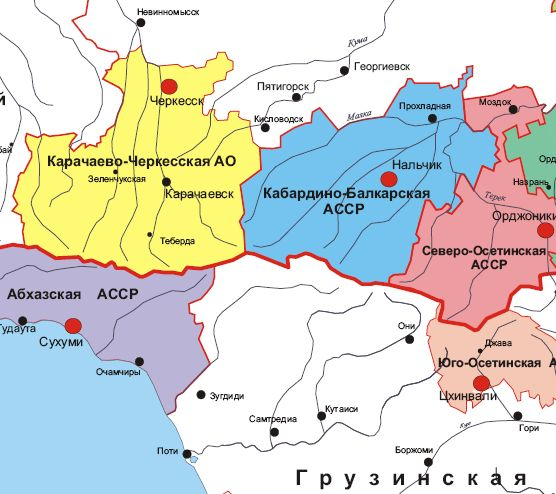 map of KarachaCherkessia